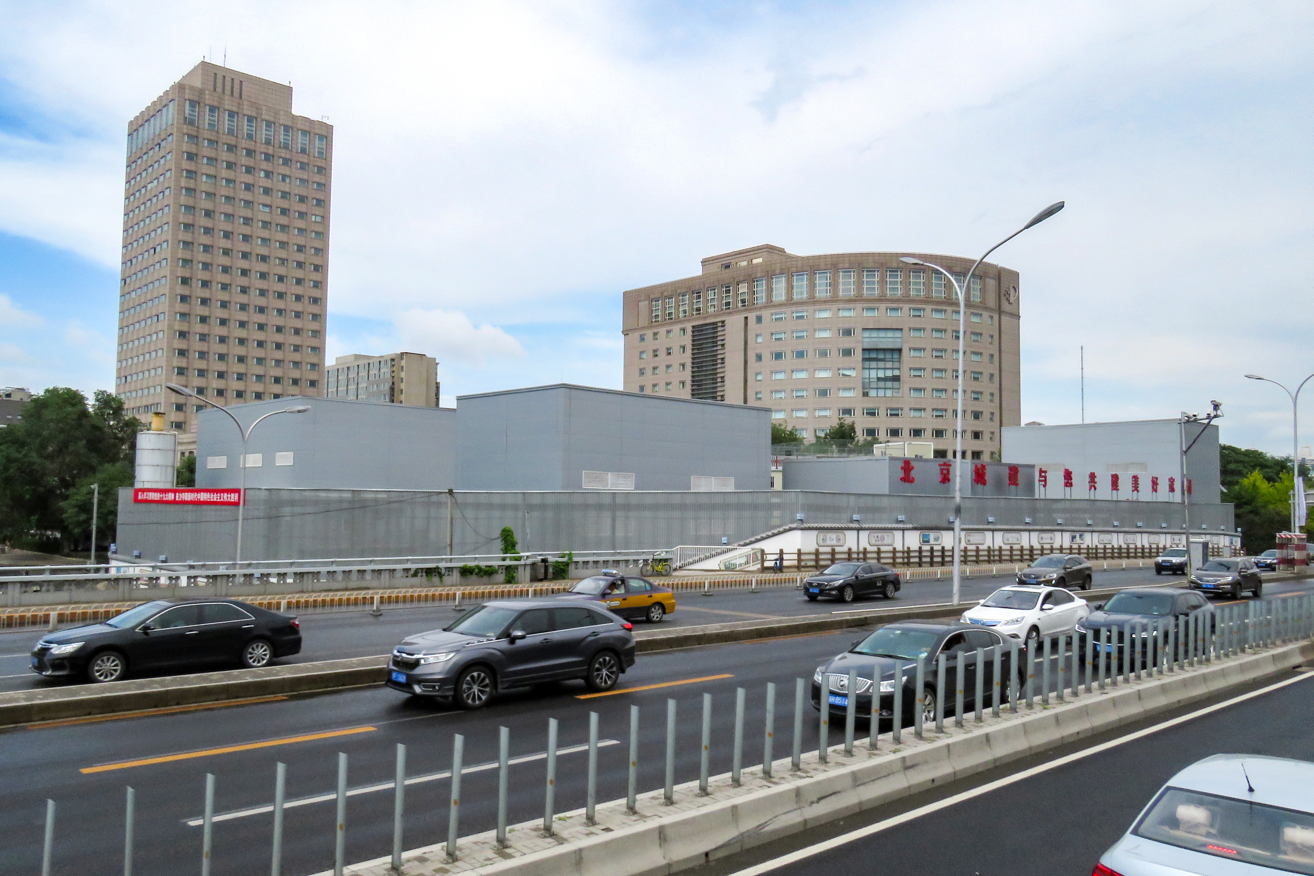 With the headquarters of China National Intellectual Property Administration (CNIPA).